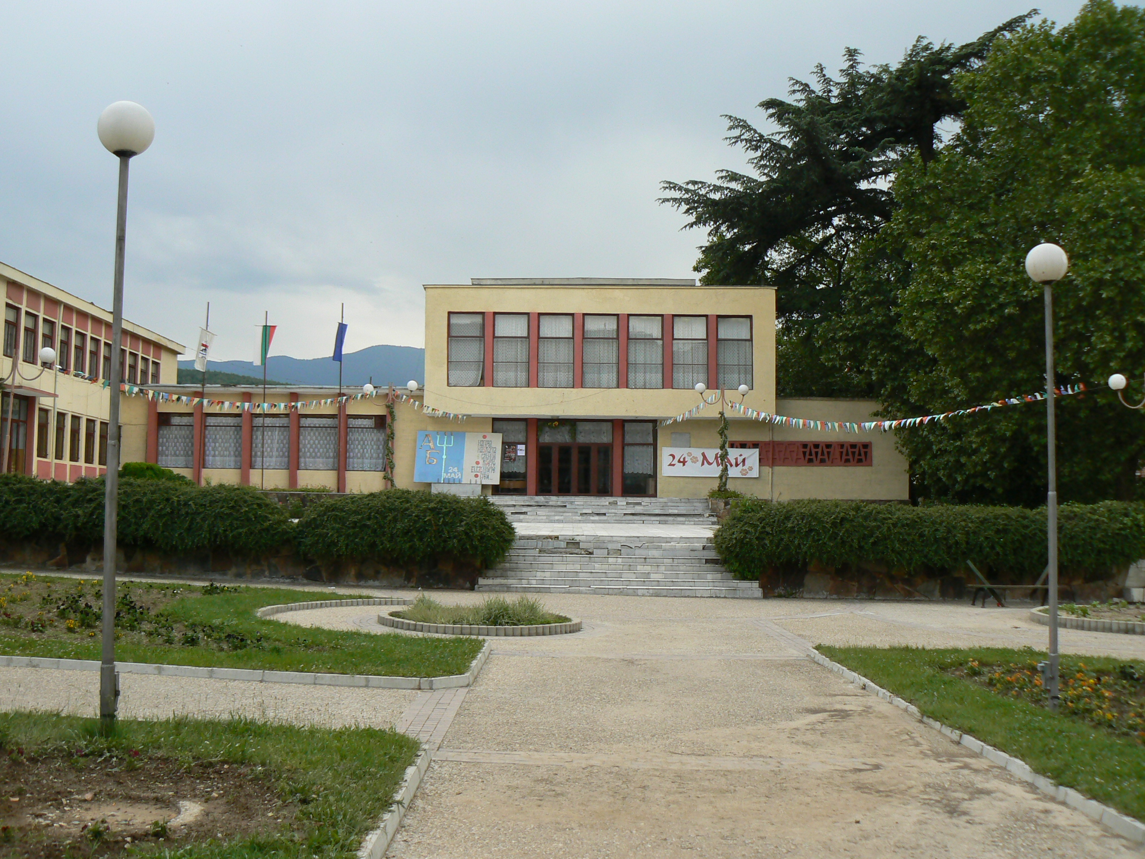 Library "Saint Cyril and Methodius" in the centre of town Belovo, Bulgaria